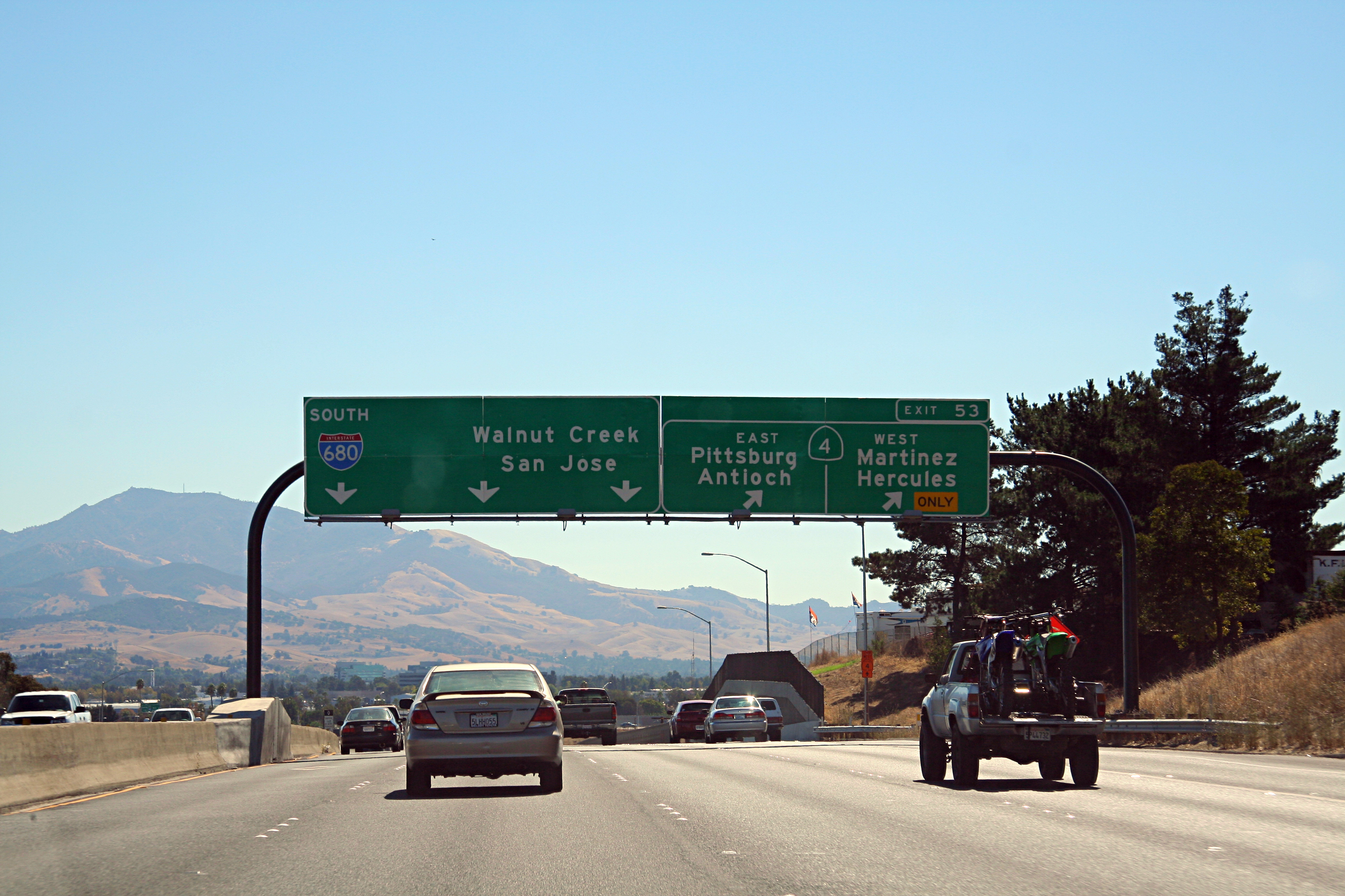 Interstate 680 crossing State Route 4, with Mount Diablo rising in backround — in Contra Costa County, northern California. " I'm not a huge fan of the road signage in California. Not that I'm a huge fan of signage in Minnesota, but whatevs. Do I really think that the highway is going to shrink from five lanes to one? Not really."